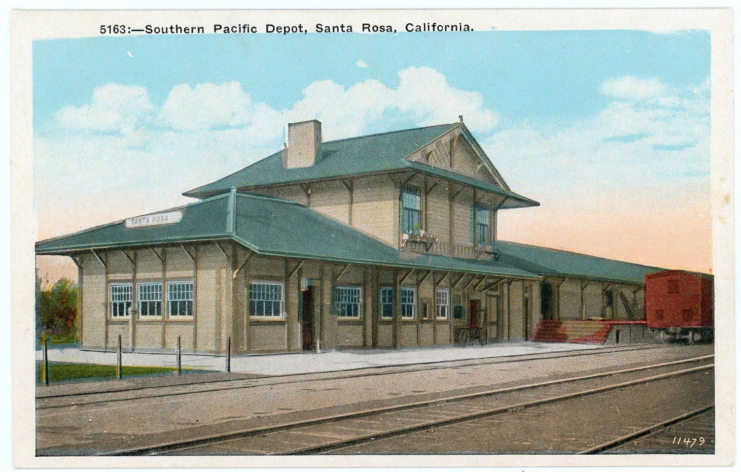 Early white border postcard of the Southern Pacific station in Santa Rosa. Separate from the surviving NWP station, the SP station was located on the Santa Rosa Branch at North Street between 13th and 14th.